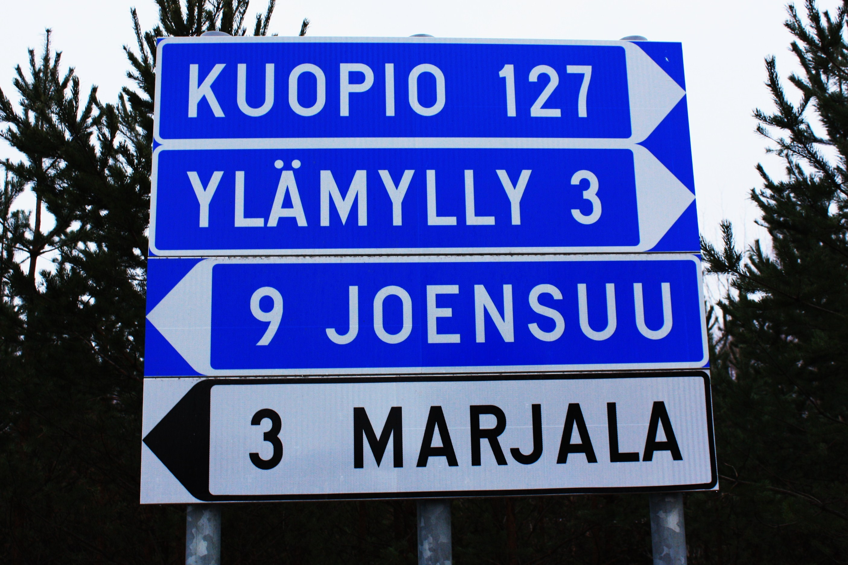 Distances from the starting point of regional road 502 in Ylämylly, Liperi, Finland.